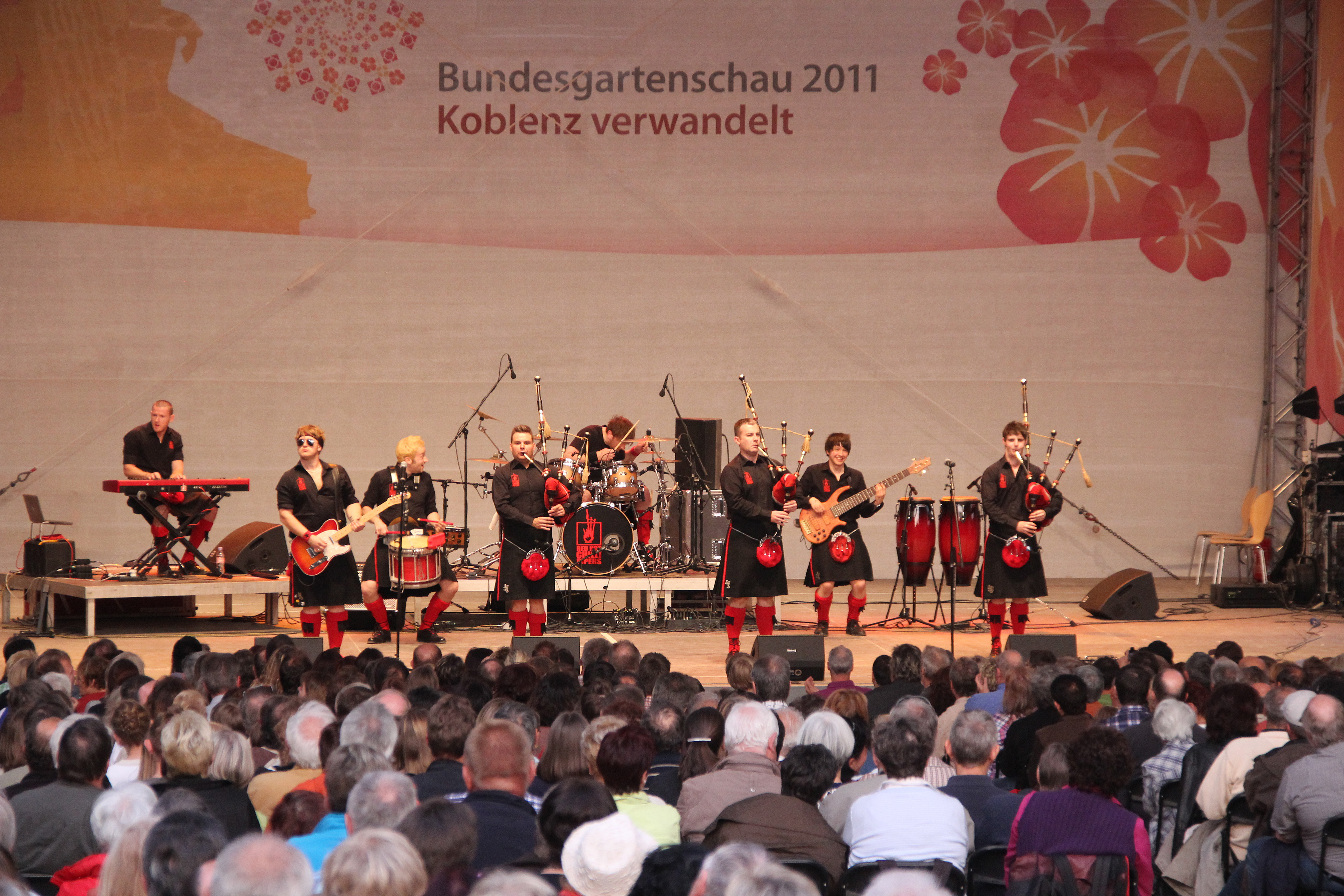 Federal Horticultural Show 2011 in Koblenz - Opening of Kultursommer Rheinland-Pfalz: Red Hot Chilli Pipers